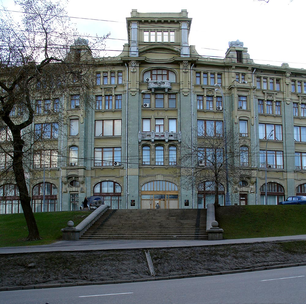 Boyarsky Dvor (Staraya Square 8) by Fyodor Schechtel. Originally a mixed office and hotel, it now hosts offices of Presidential Administration.